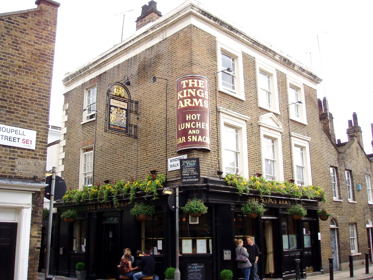 A great ale pub near Waterloo East, which is nevertheless often very full. Address: 25 Roupell Street. Owner: Windmill Taverns Group (website); Taylor Walker (former). Links: Randomness Guide to London Fancyapint Pubs Galore Beer in the Evening Qype